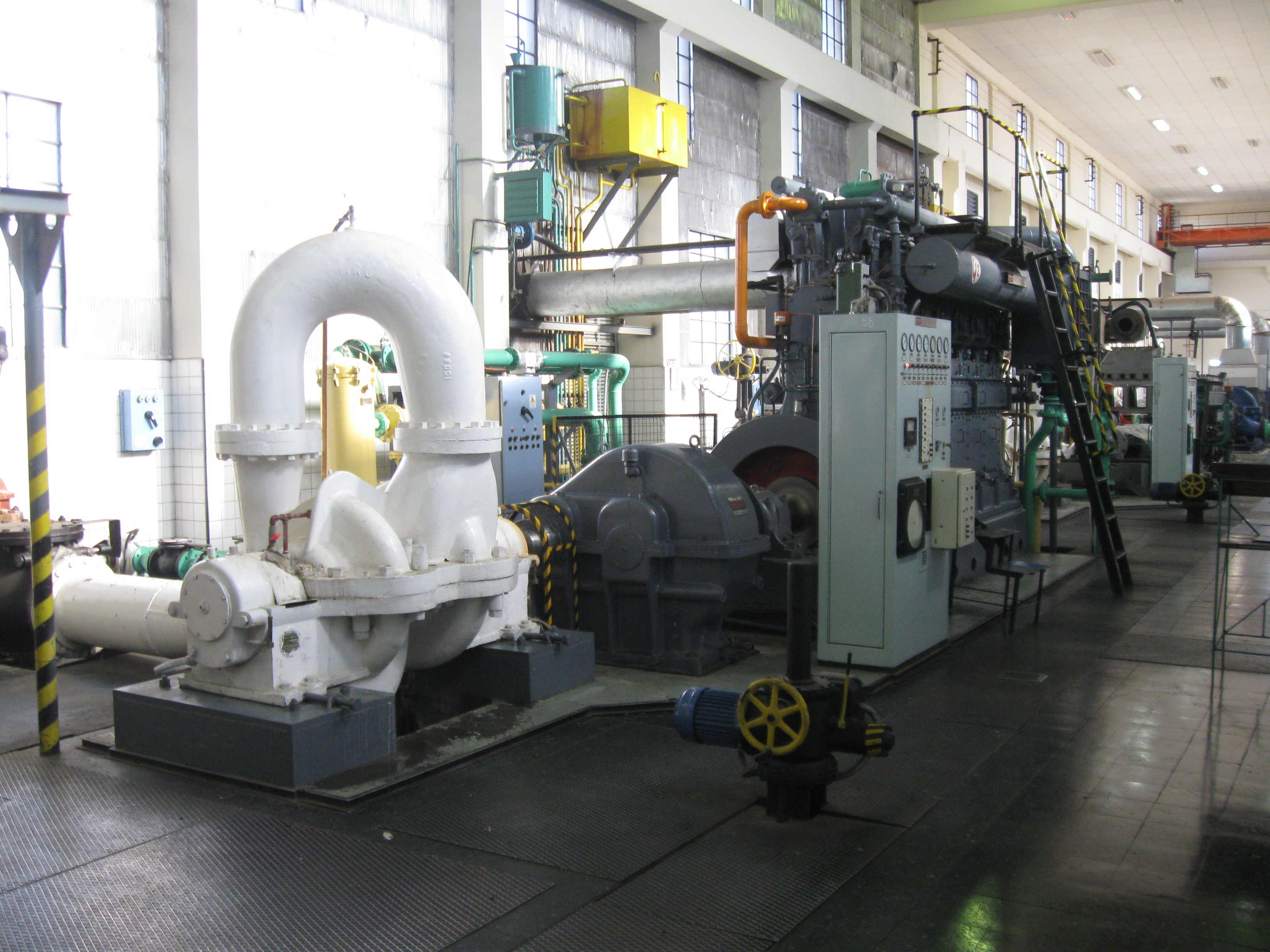 Motobomba Worthington - Estación Valle Hermoso